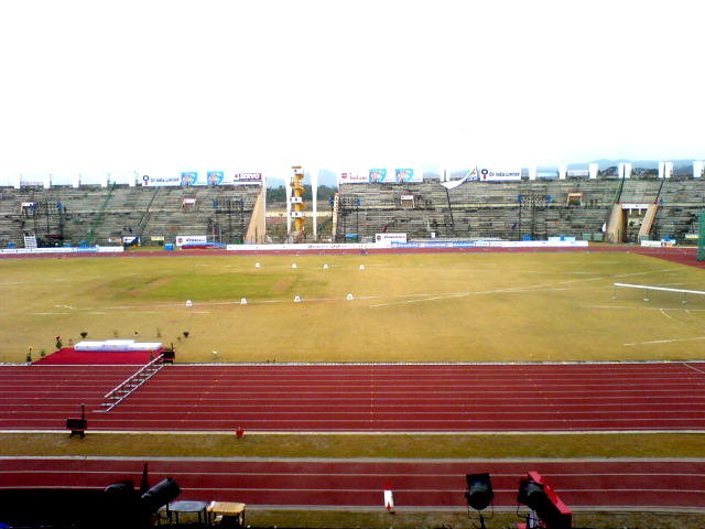 Sarusajai Stadium inaugurated for National Games 2007